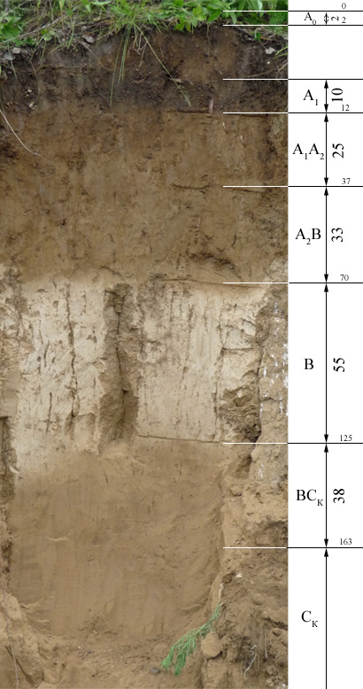 The scheme of horizonts of gray forest soil